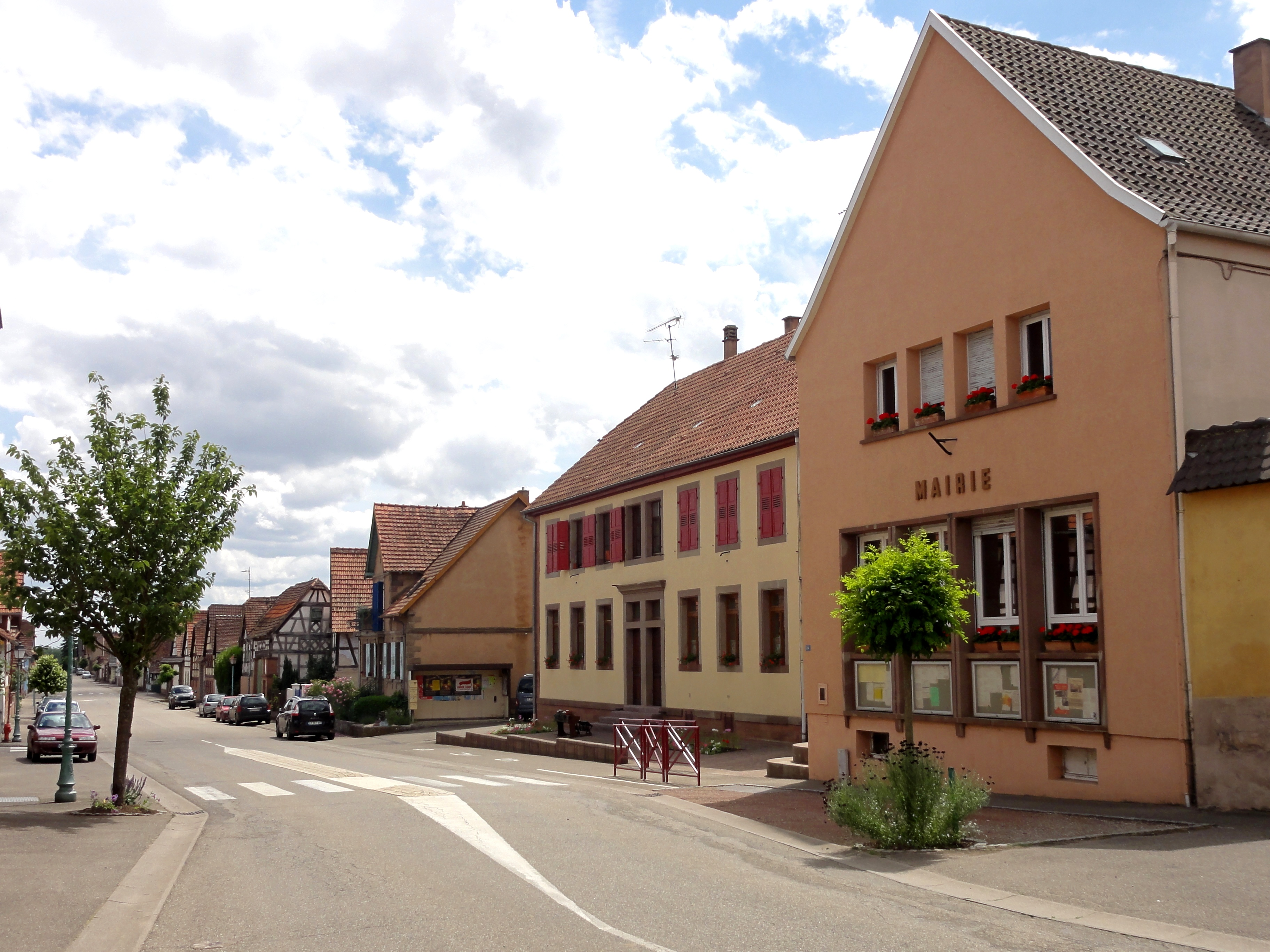 Alsace, Bas-Rhin, Kirrwiller, Rue Principale, Mairie.